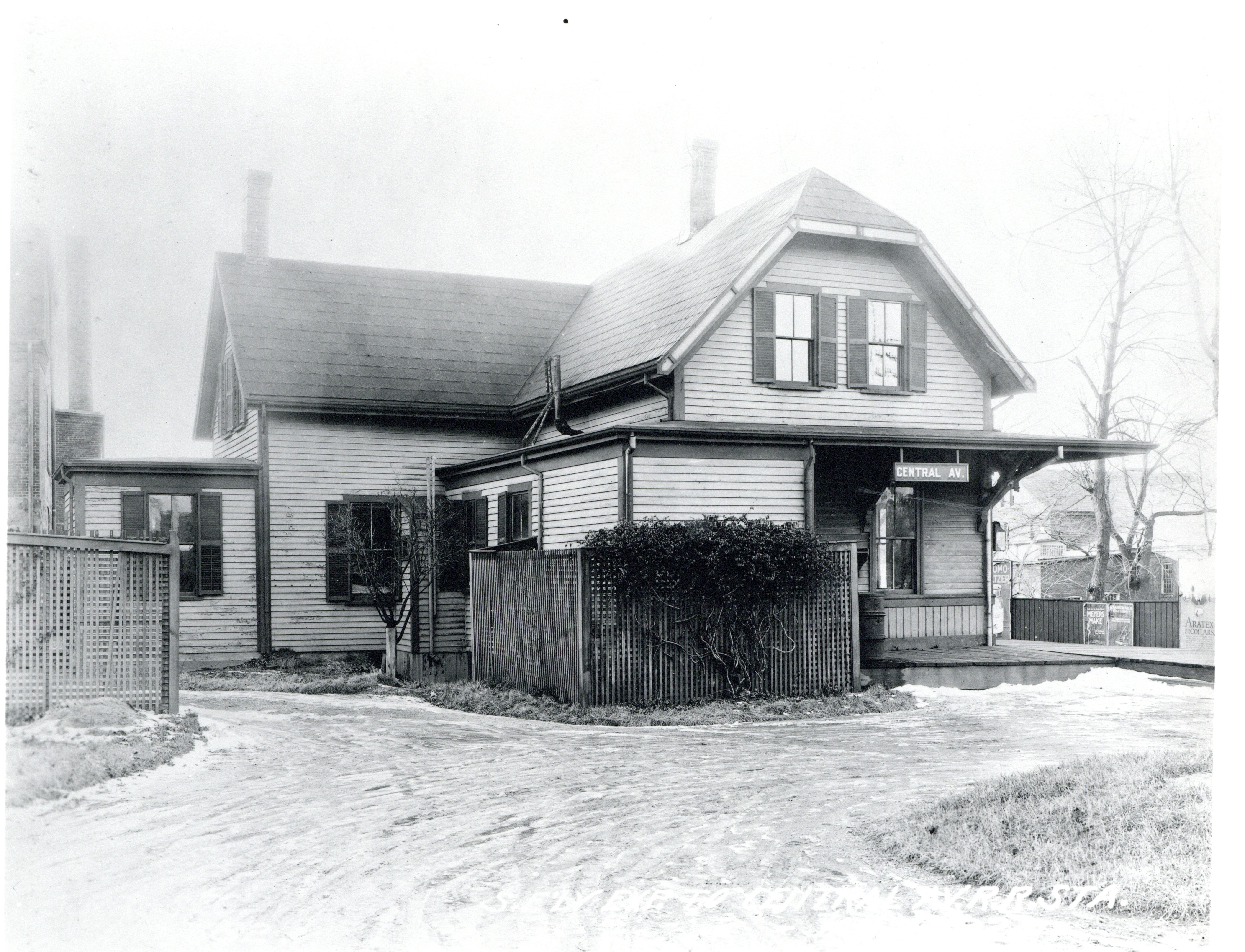 Central Avenue Railroad Station in 1924, three years before service was discontinued for construction of the Ashmont-Mattapan High Speed Line